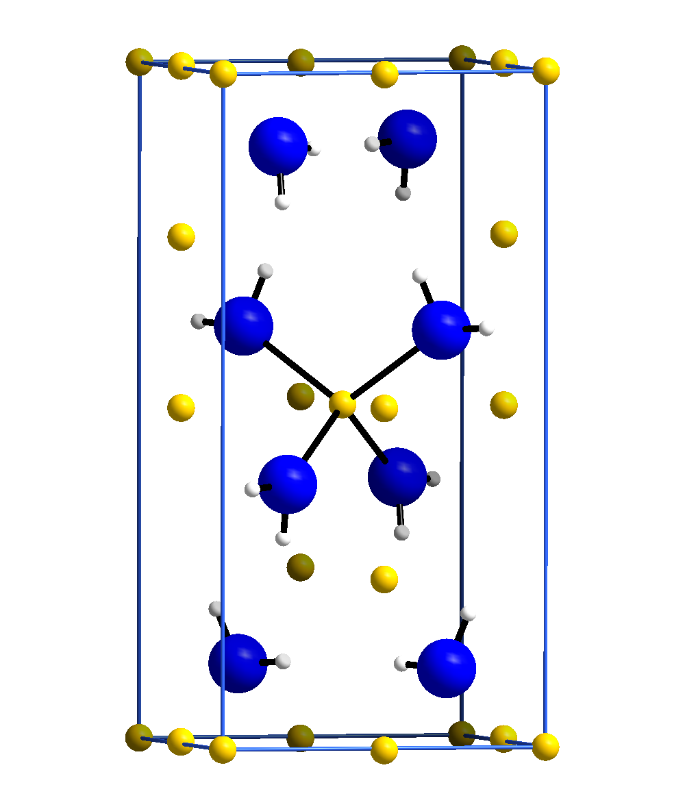 Unit cell of lithium amide